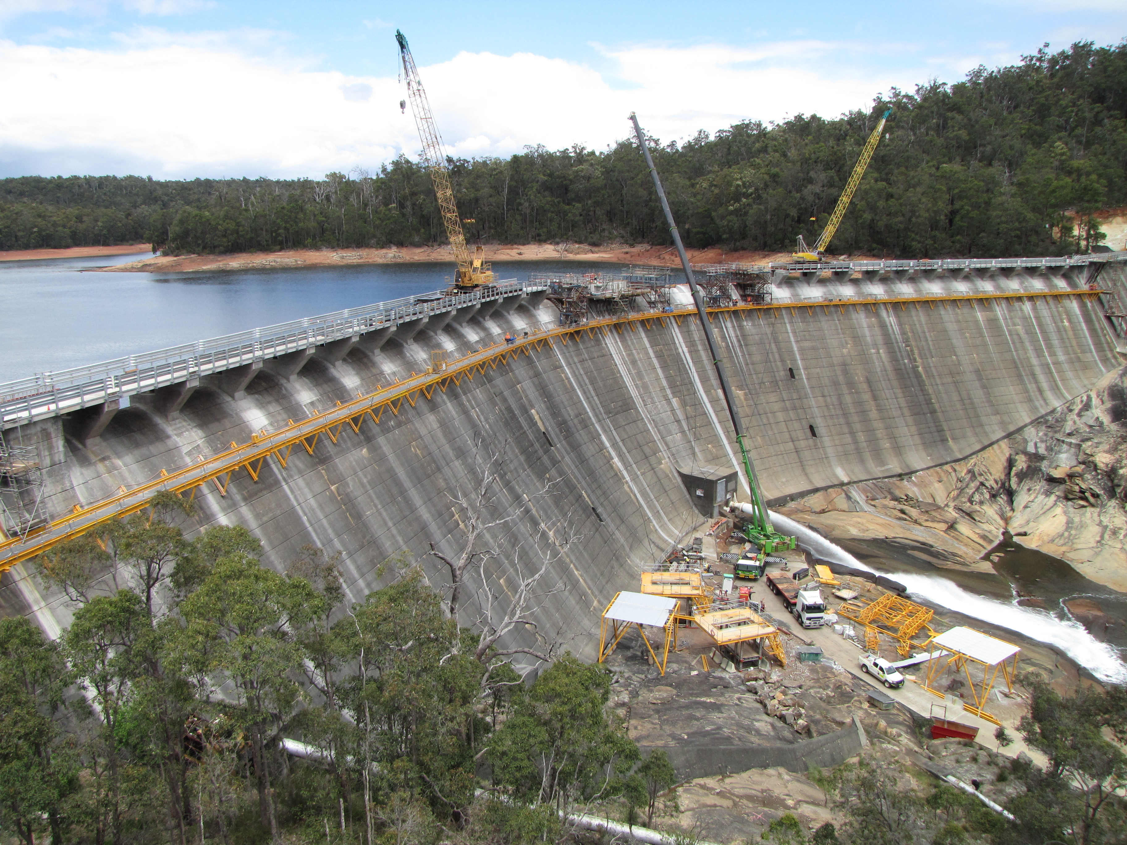 Construction work at the Wellington Dam Hydro Power Station, Western Australia.